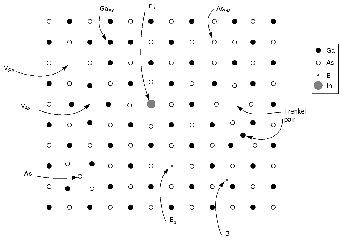 Schematic illustration of defects in a compound solid, using GaAs as an example. The defect notation is such that the upper-case letters stand for atoms or vacancies (V) on a lattice site, and the subscripts for the lattice site in a perfect crystal. The subscript i stands for an interstitial site and the subscript S for a substitutional site. Thus e.g. Asi stands for a As atom on an interstitial site, VGa for a missing atom on the Ga sublattice, GaAs for a Ga antisite atom on the As sublattice, and BS for a B atom on a substitutional site. This notation is a variety of Kroger-Vink Notation for non-ionic solids. Note that this 2D illustration does of course not correspond to the real zincblende 3D crystal structure of GaAs. Kai Nordlund, made originally with Framemaker in 2000 for lecture notes in a course on Solid State Physics in Swedish, translated to English in 2007 with gimp.